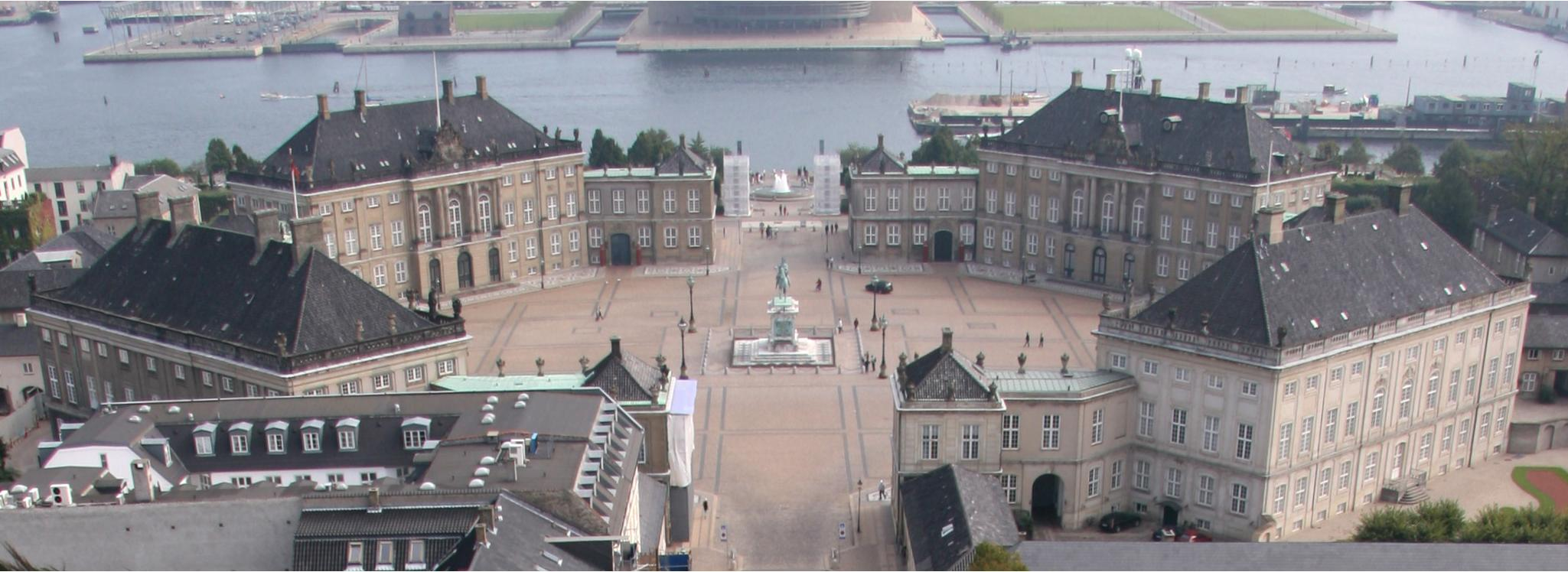 Amalienborg Palace, Copenhagen, Denmark Viewed from the top af Frederik's Church (The Marble Church)